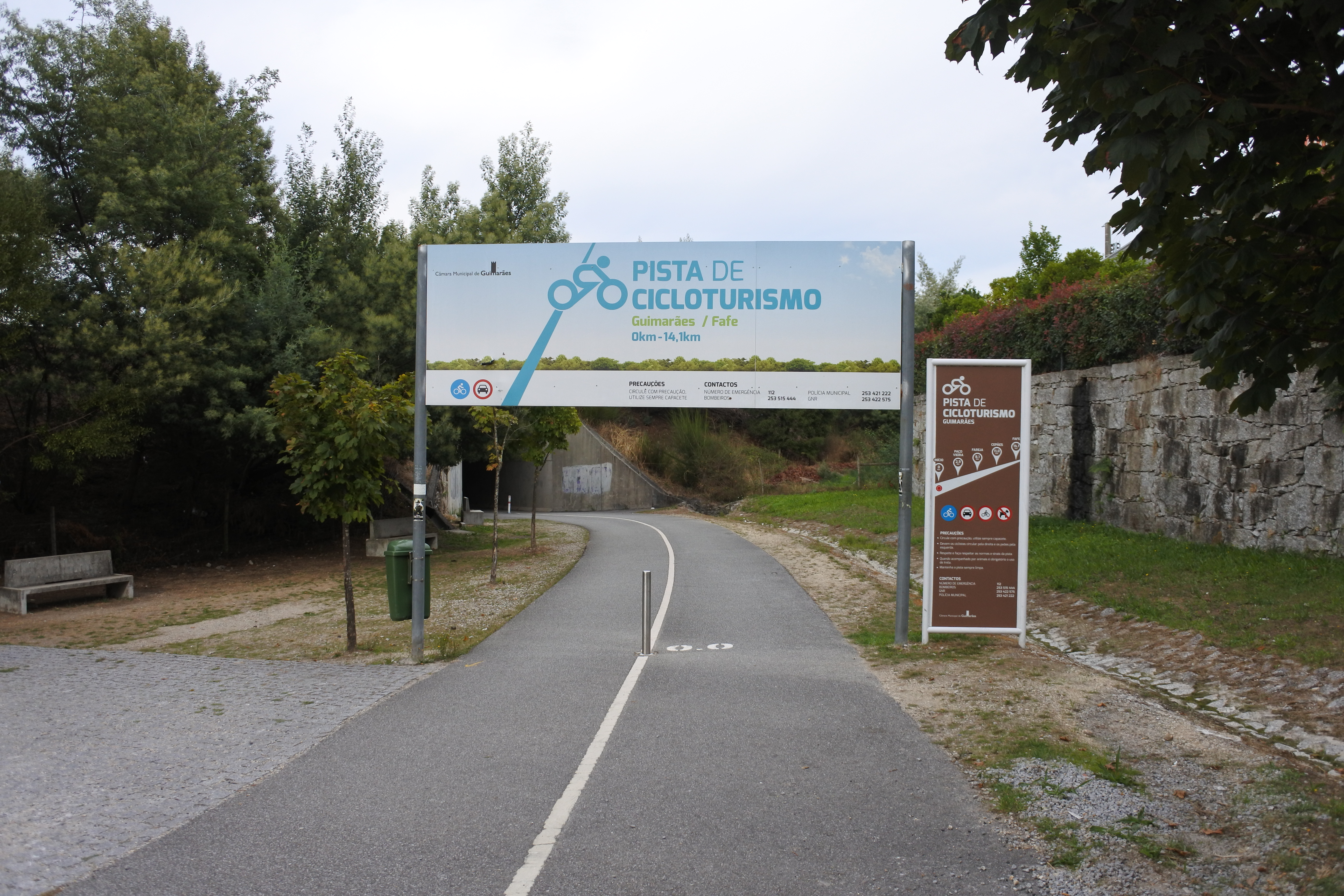 Guimarães/Fafe cyclepath